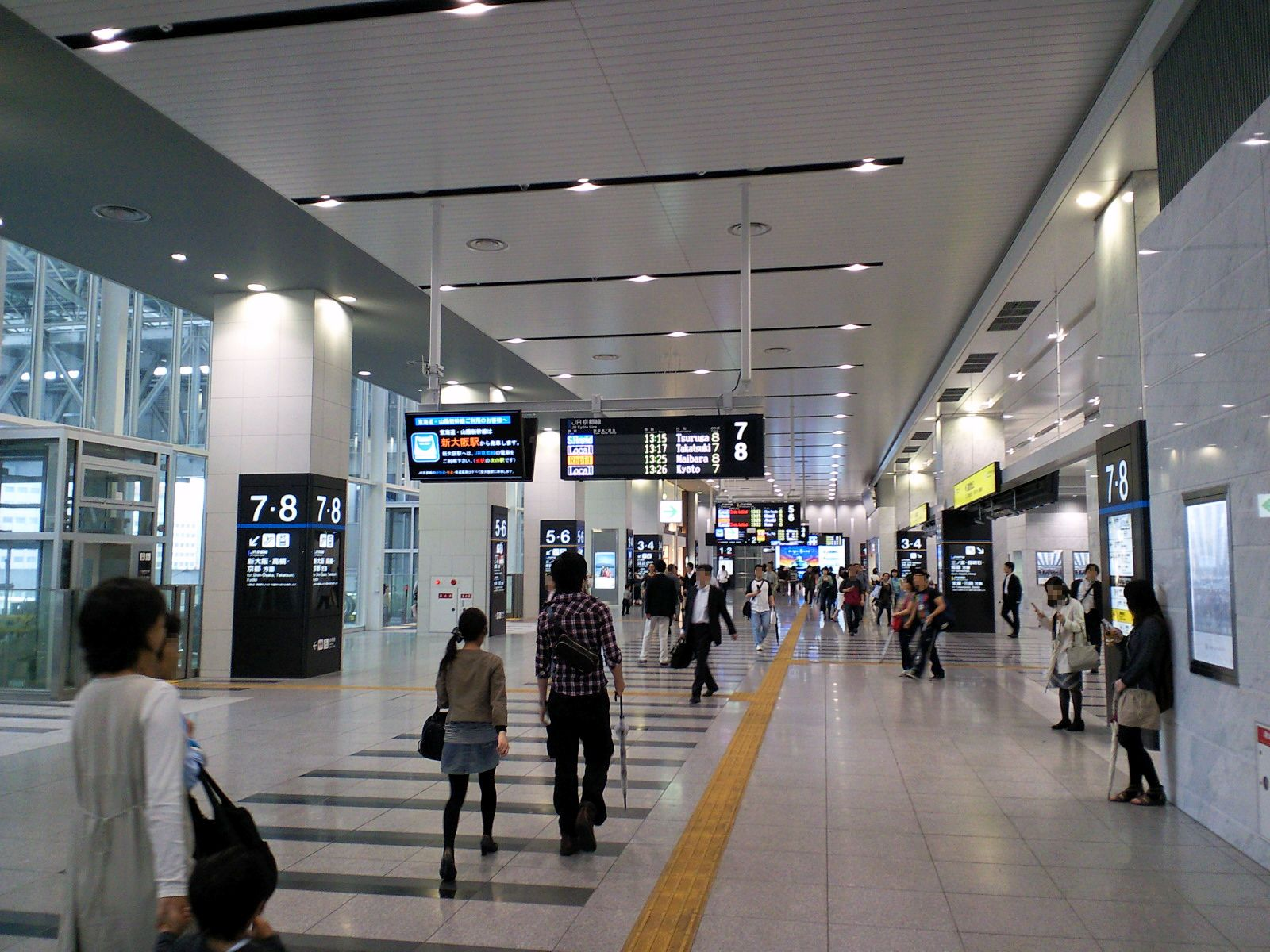 JR Osaka Station, Osaka, Japan